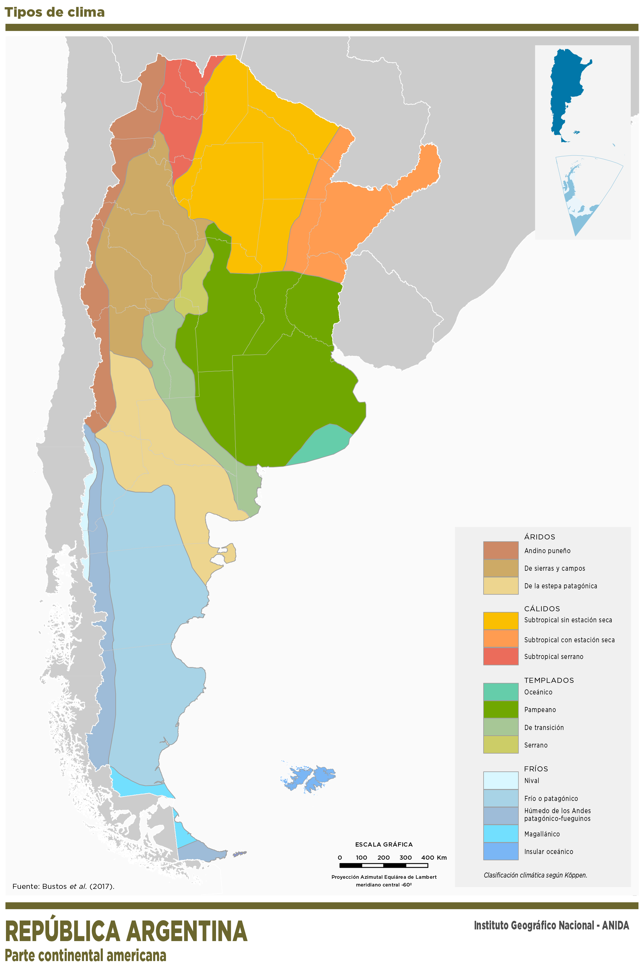 Types of weather The map of the southern cone of South America is presented, with the South American part of the Argentine Republic colored according to the climatic types considered by the author. The main reference is transcribed below and the colors are named in parentheses ARID (brown) Andean Puno Of mountains and fields From the Patagonian steppe. WARM Subtropical without dry season (yellow) Subtropical with dry season (orange) Serrano subtropical (red) TEMPERED (green) Oceanic Pampeano Of Transition Highlander COLD (blue) Snowy Cold or Patagonian Wet from the Patagonian-Fuegian Andes, Magellanic Oceanic island The map shows the bordering countries in gray and the international borders in white. Argentine inter-provincial boundaries are shown in gray. Lower legends: Lambert equiazial azimuth projection. Central meridian: -60º Source: Bustos et al. (2017) Argentinian republic American mainland National Geographic Institute - ANIDA In the upper right corner there is a box with a map showing the southern cone of fag and a sector of Antarctica with the Argentine territory highlighted in blue and the Argentine Antarctica in light blue.